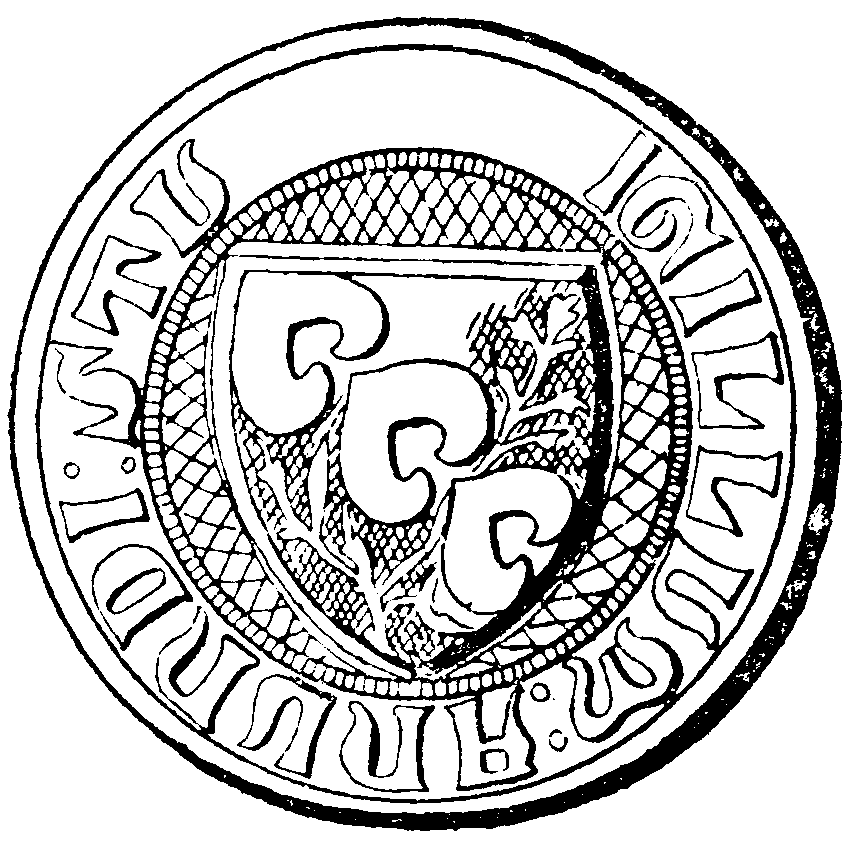 The seal of Anund Sture from 1323